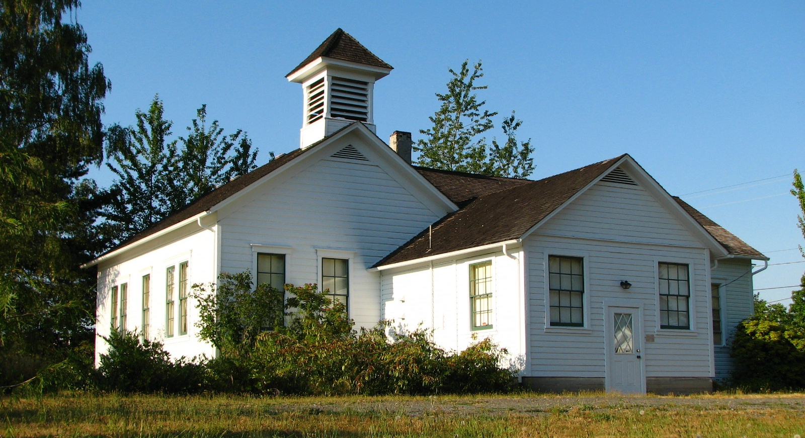 The historic Damascus School (built 1876),located at 14711 Southeast Anderson Road in Damascus, Oregon,United States, is listed on the US National Register of Historic Places. It is currently in use as a private art studio and training facility.